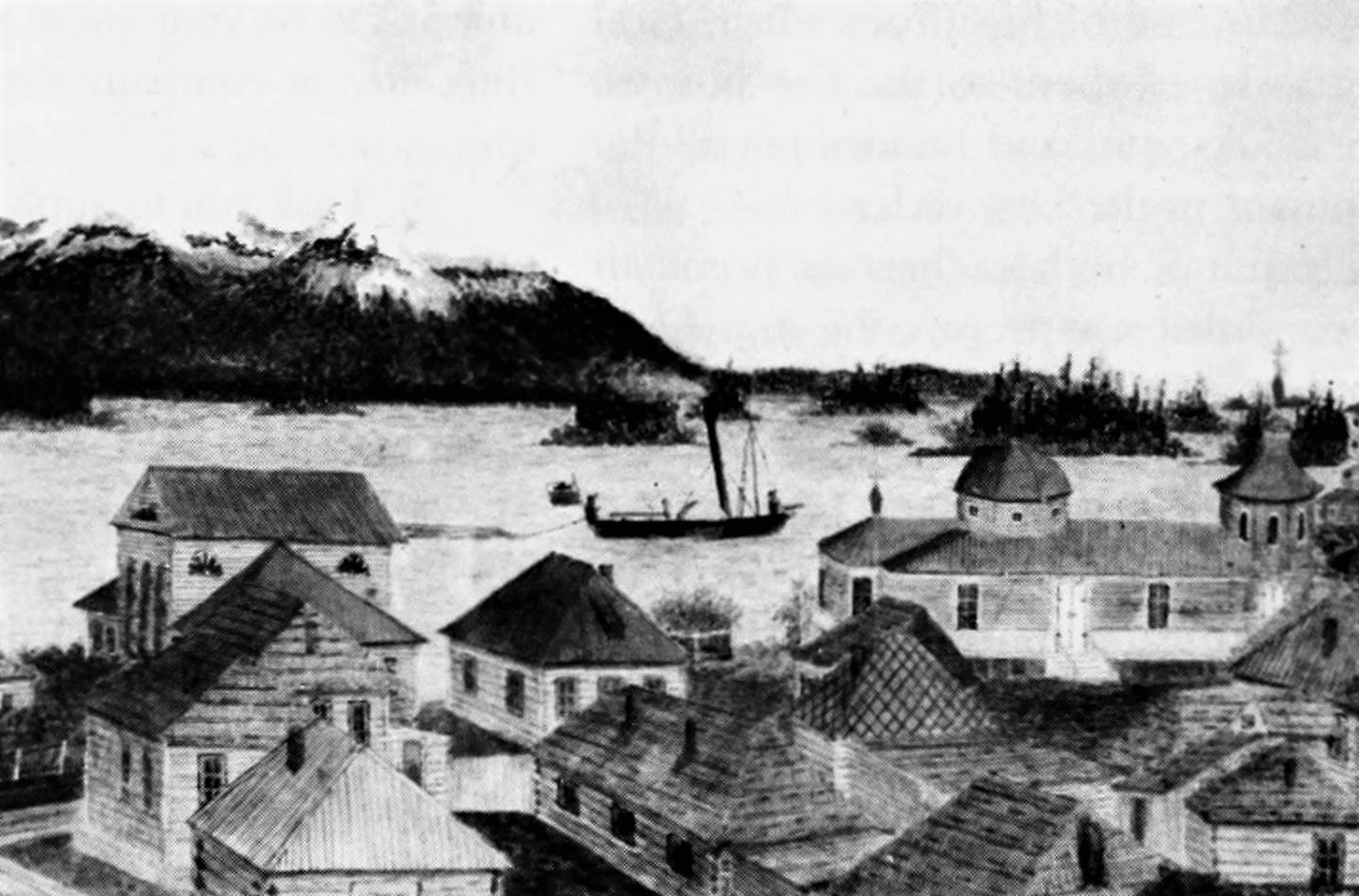 Detail of a watercolour depicting Sitka, Alaska in the mid-19th century. The large building to the left of the boat is the Sitka Lutheran Church. The large domed building to the right is St. Michael's Cathedral